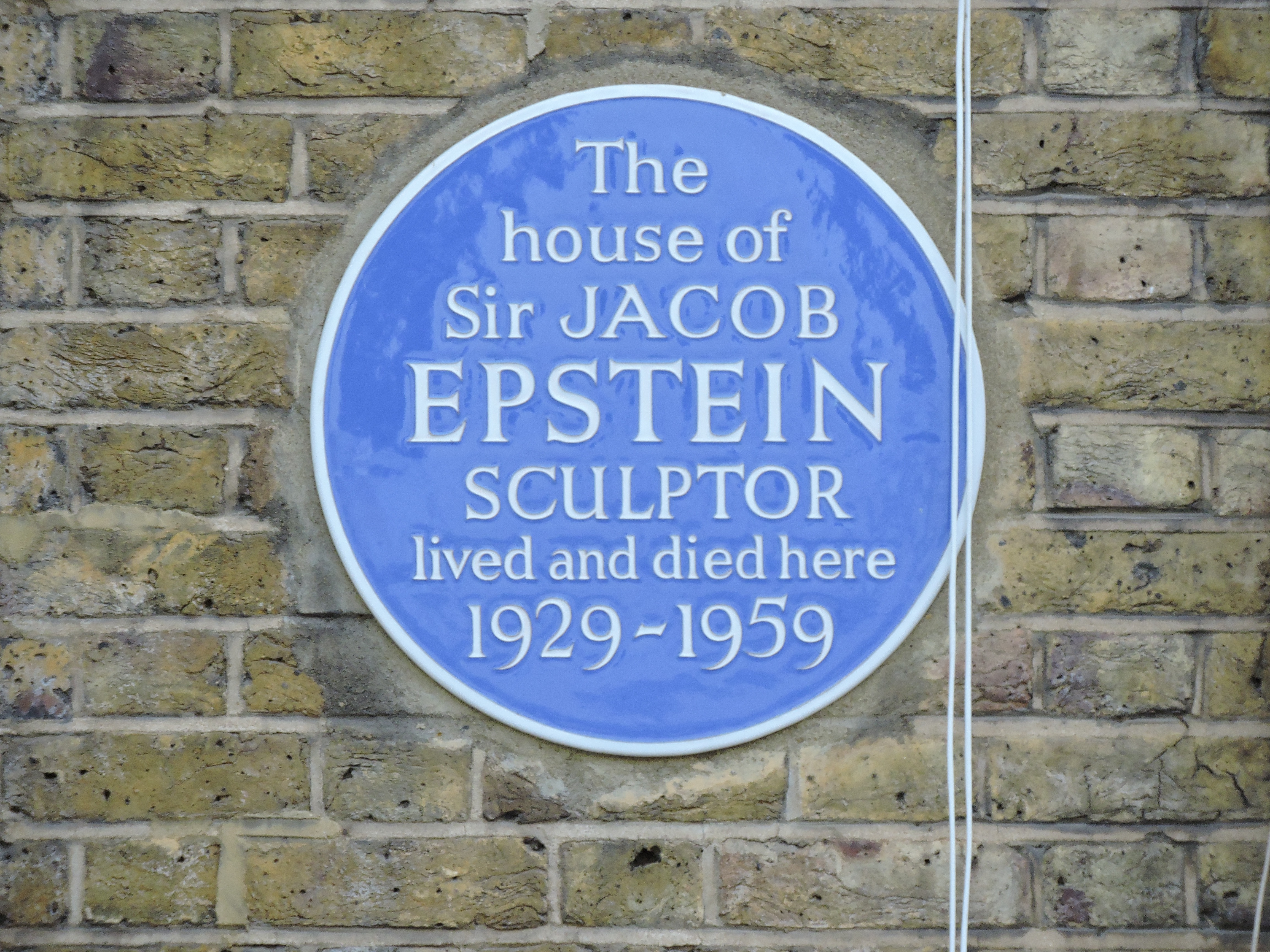 Blue Plaque for Jacob Epstein Sculptor, located at 18Hyde Park Gate, London SW7 5DH